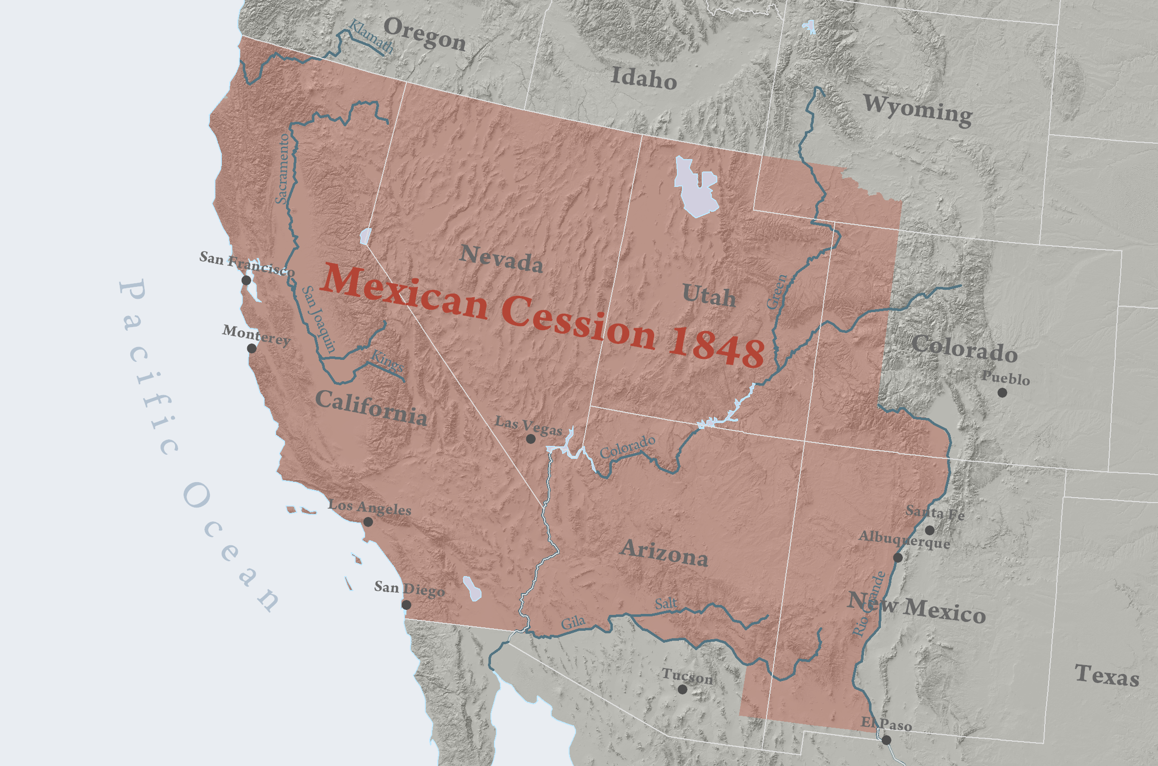 Map of the Mexican Cession. The territories ceded by Mexico to the U.S. in 1848 in the Treaty of Guadalupe Hidalgo, which ended the Mexican-American War (1846 – 1848). The land lost equalled one third of Mexico's total territory — and became California the Southwestern United States..